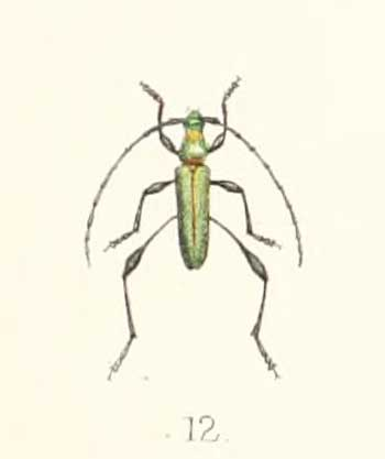 « Hospes nitidicollis » = Hospes nitidicollis